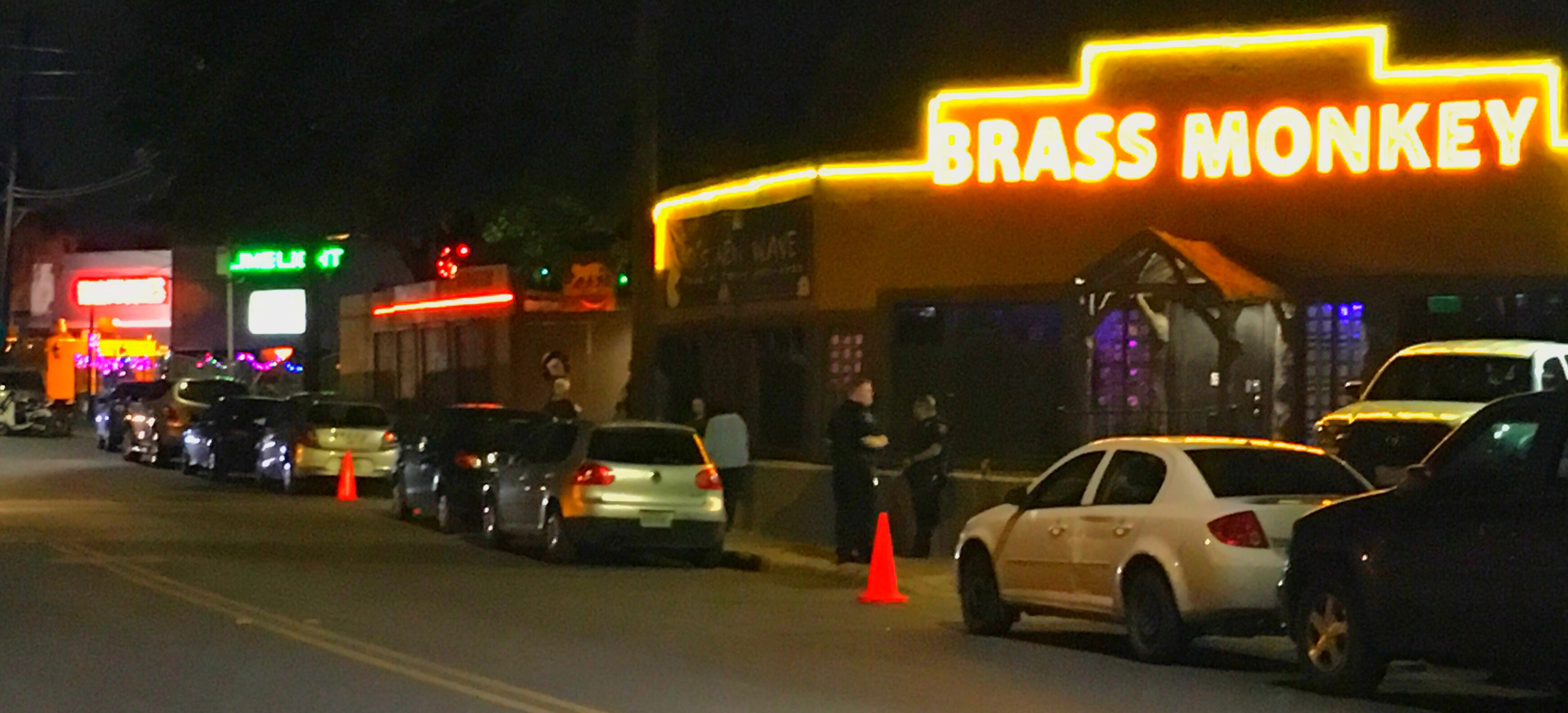 Bars, clubs, and event venues lining North St. Mary's Street in San Antonio, Texas